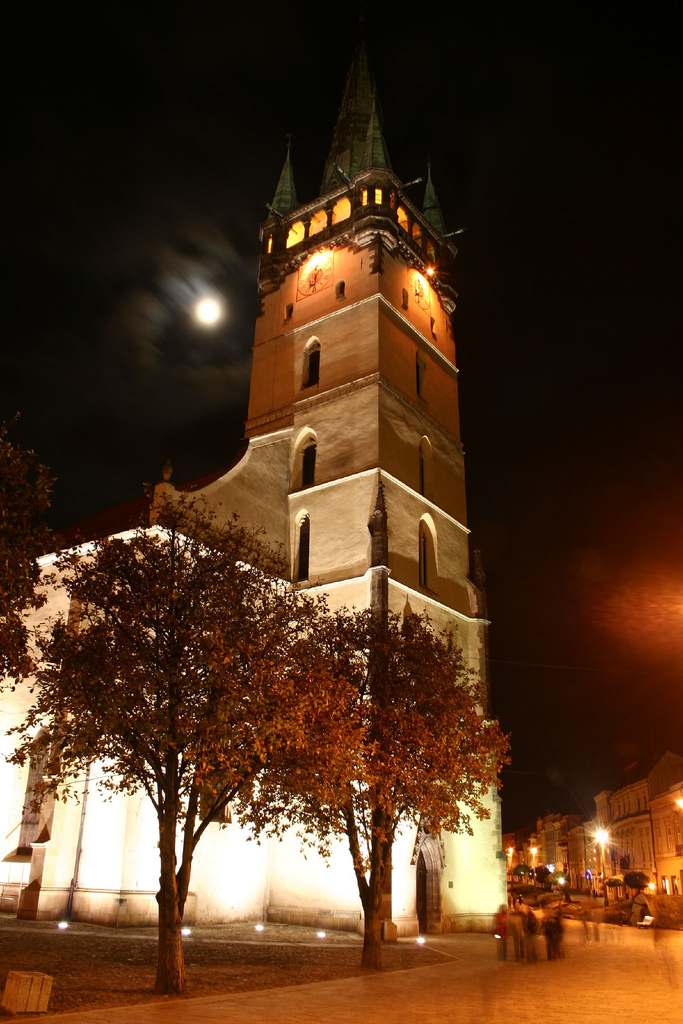 Veža konkatedrály sv. Mikuláša v Prešove